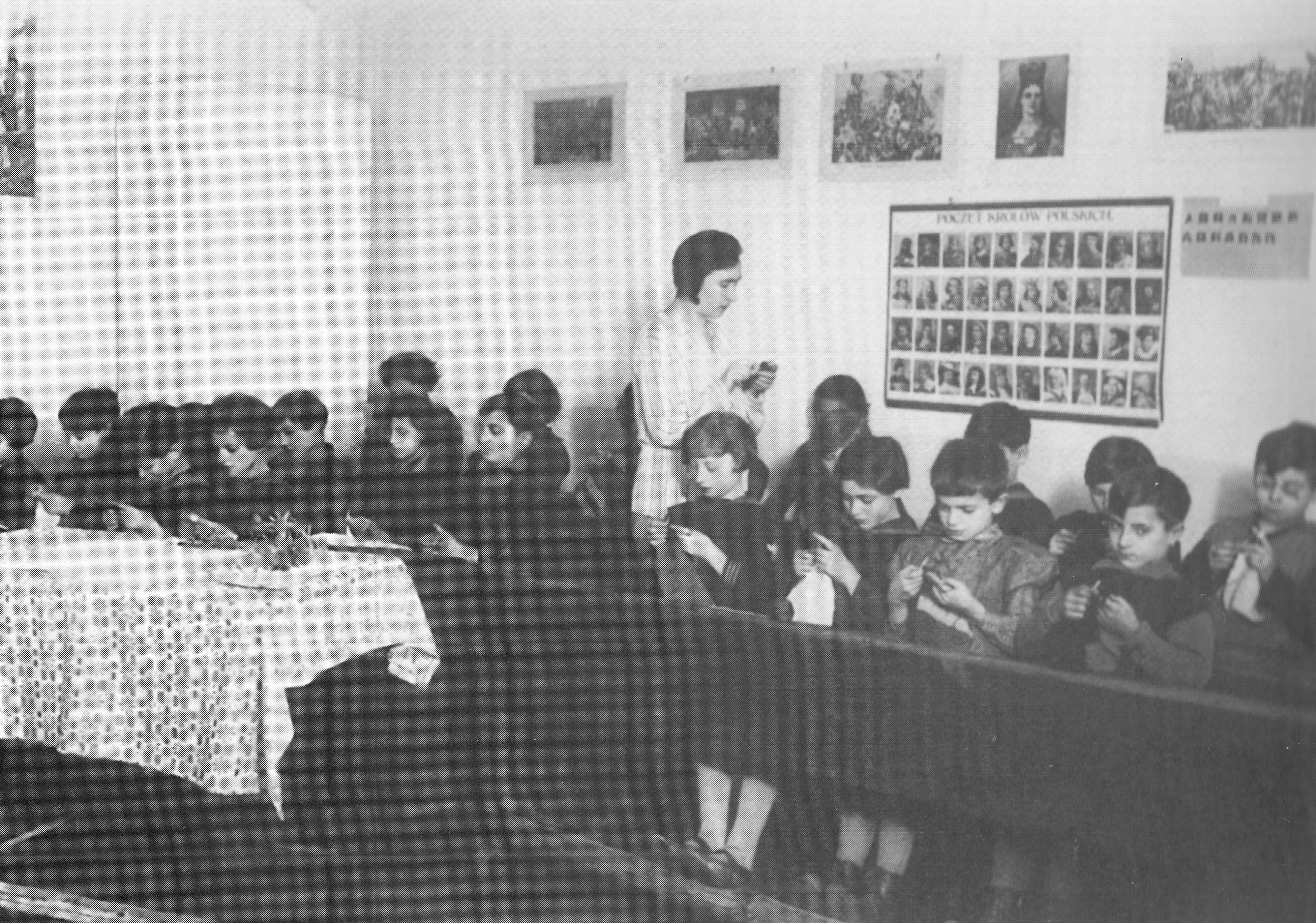 "Szabasówka", a state school for Jewish children (Poland, place unknown)